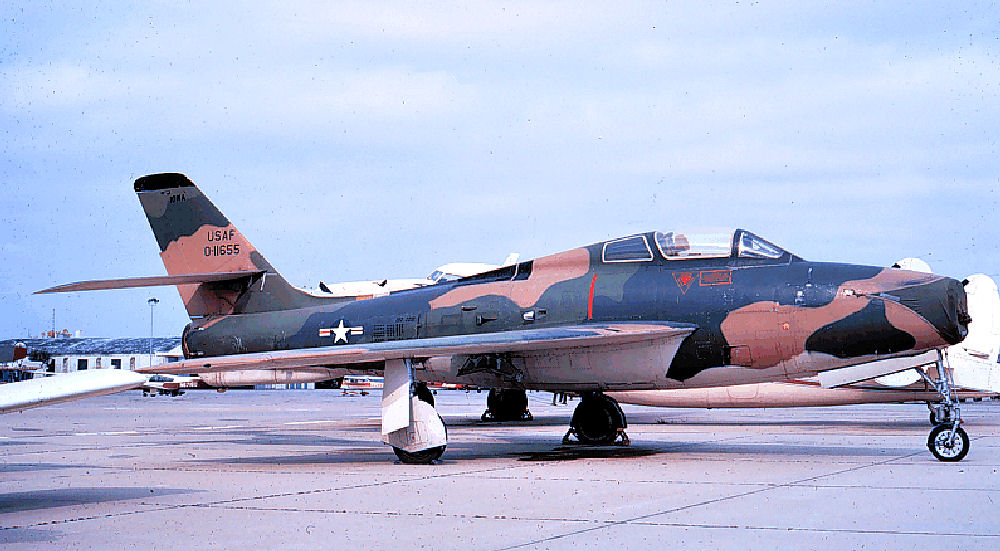 124th Tactical Fighter Squadron - Republic F-84F-25-RE Thunderstreak 51-1655 Retired and now on display at Western Community College, Council Bluffs, IA as N4930